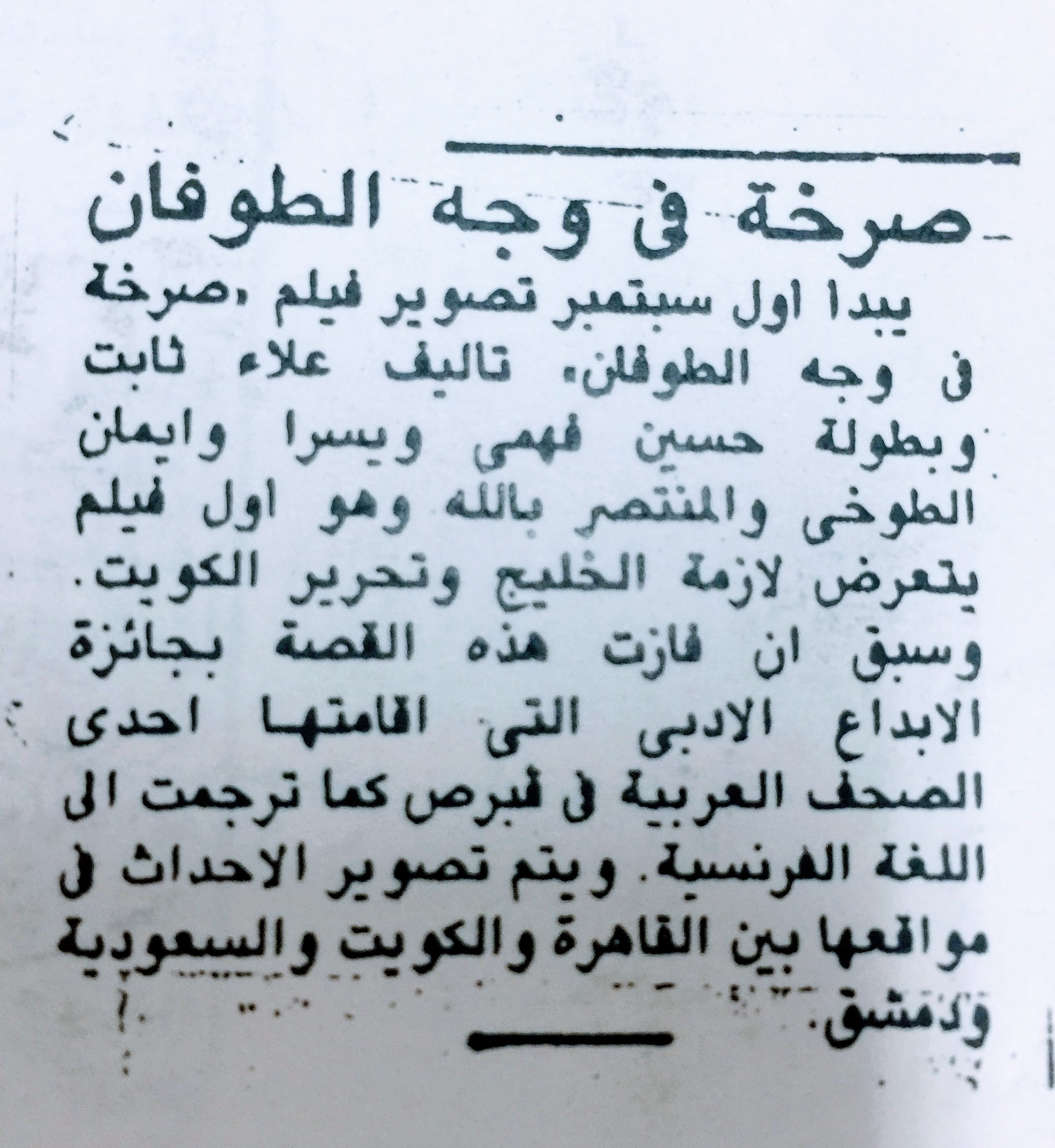 the movie "Scream in the Face of the Flood" by Alaa Thabet